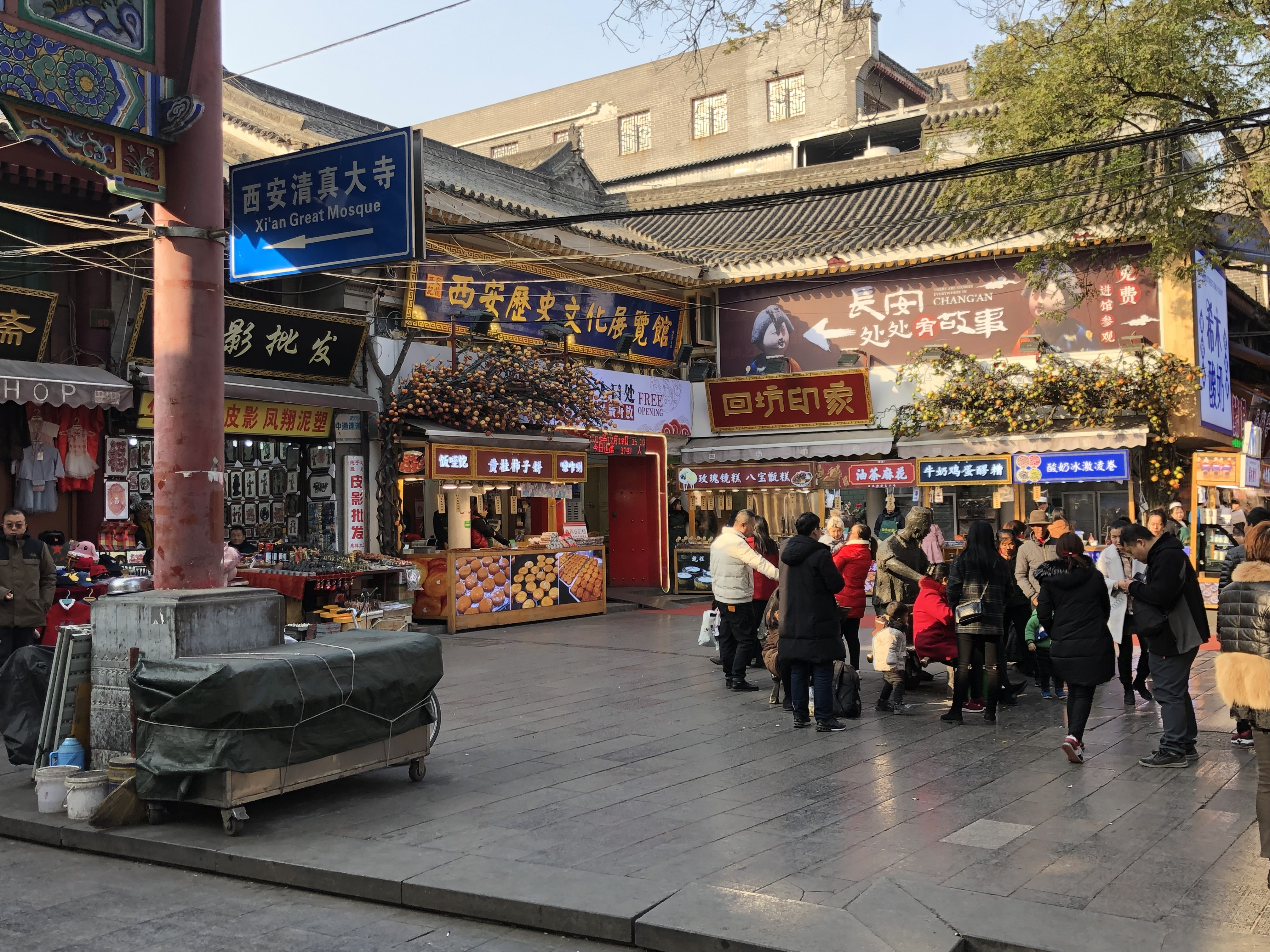 The entrance of Xi'an Muslim Quarter